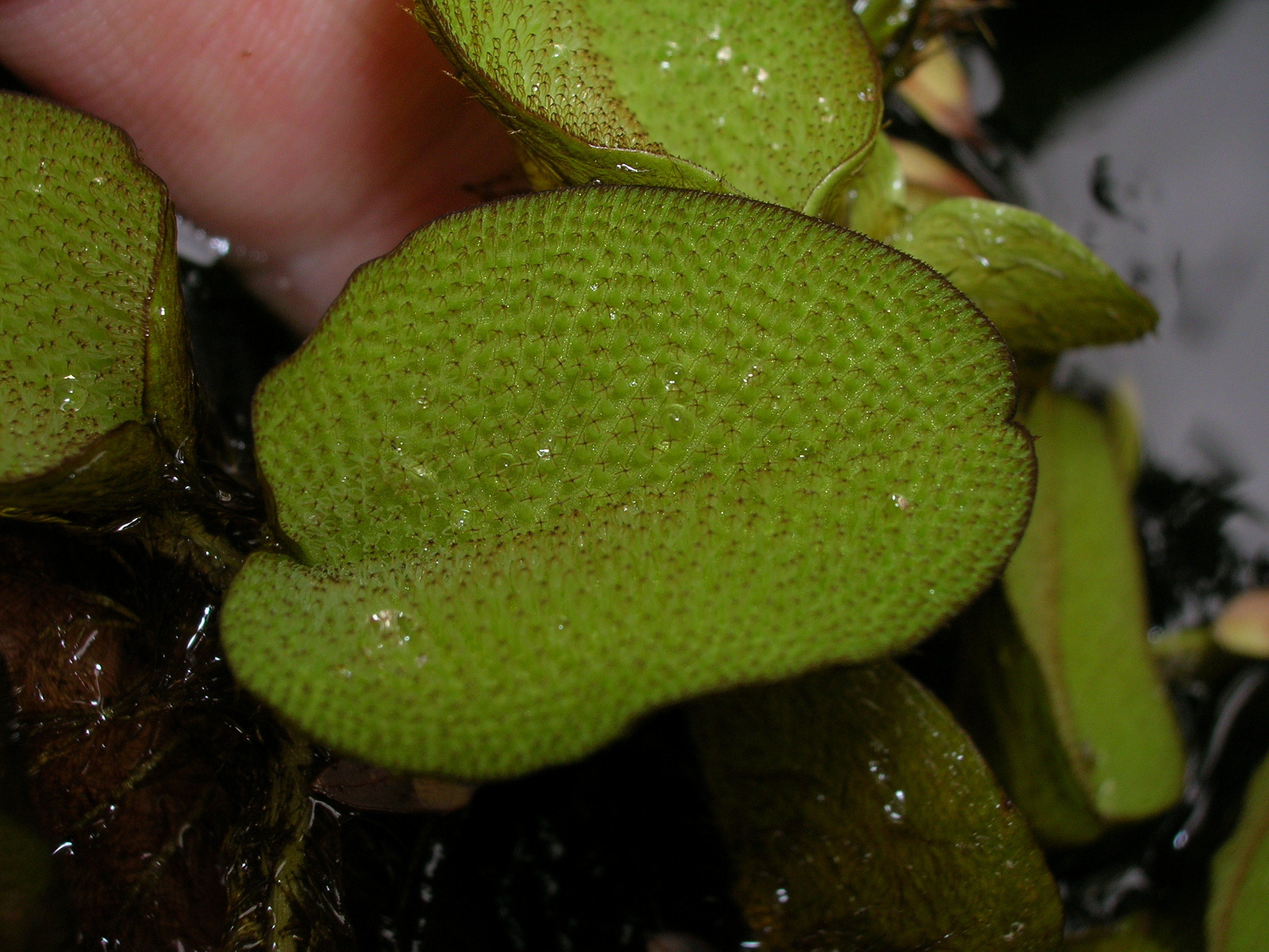 Salvinia molesta (habit). Location: Maui, Kula